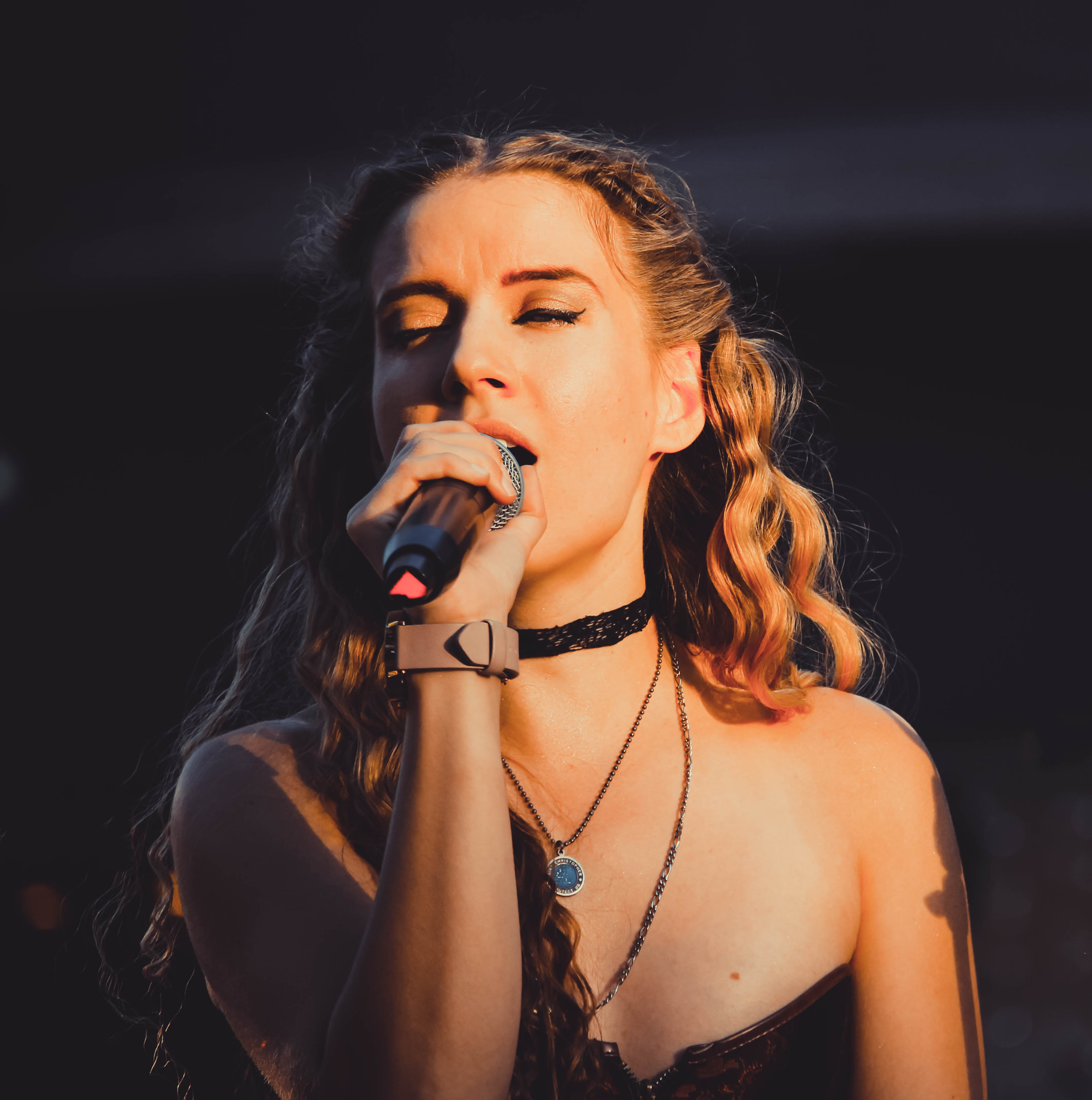 Michelle Lambert in San Rafael, CA